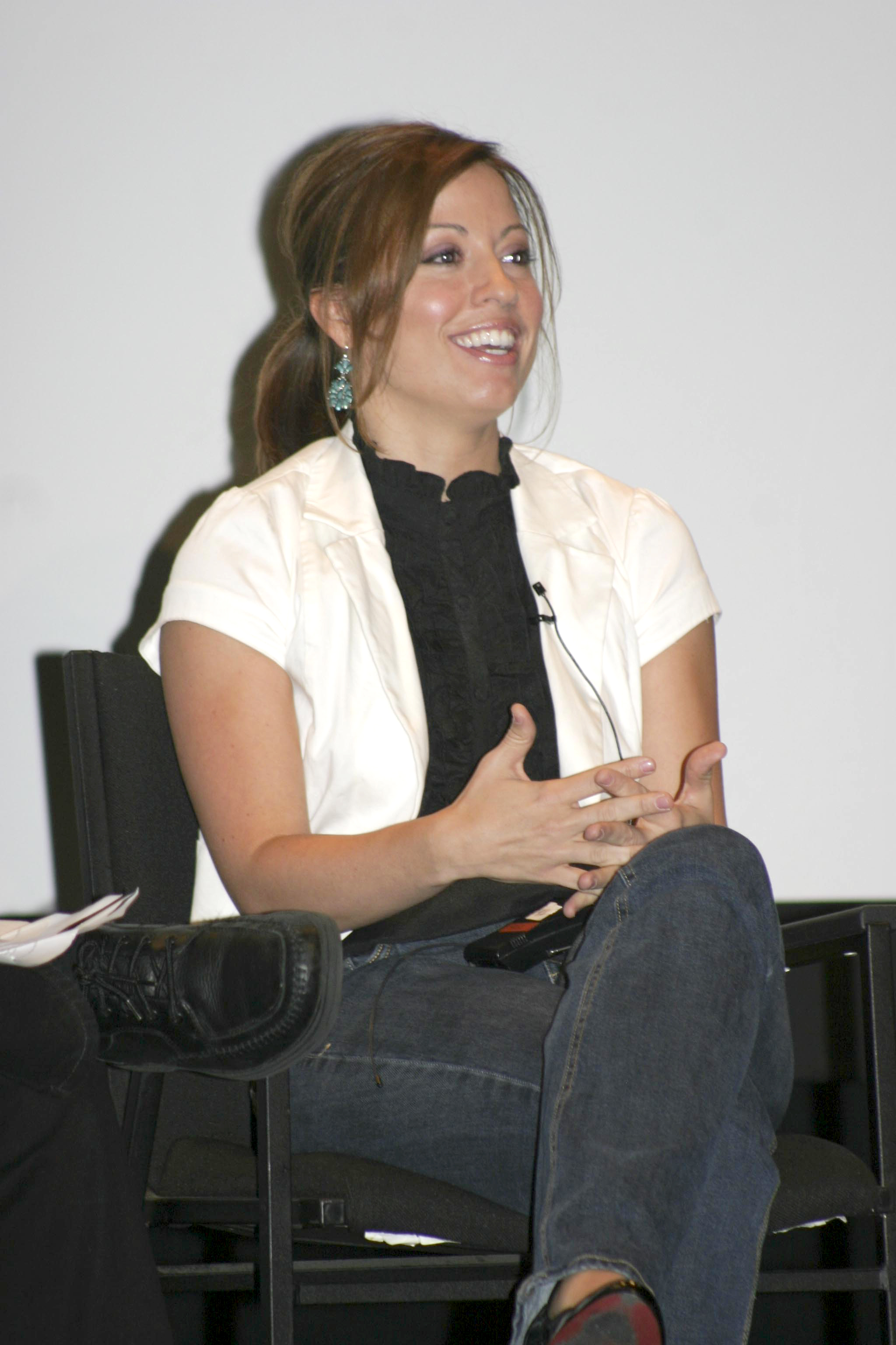 American television writer and actress Kay Cannon.